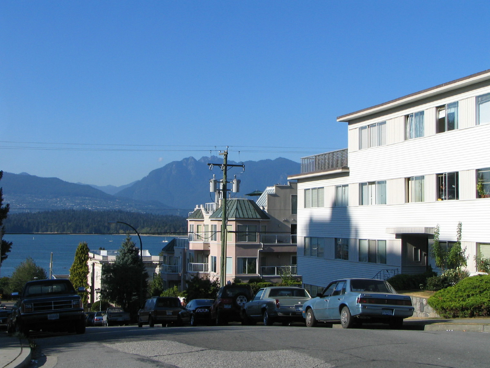 This image was created by me, Flying Penguin of Pacific Spirit Photography of Burnaby, British Columbia, Canada.